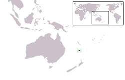 Map derived from Image:BlankMap-World.png at Wikipedia:Blank maps. Category:Country locator maps Category:Maps of Norfolk Island